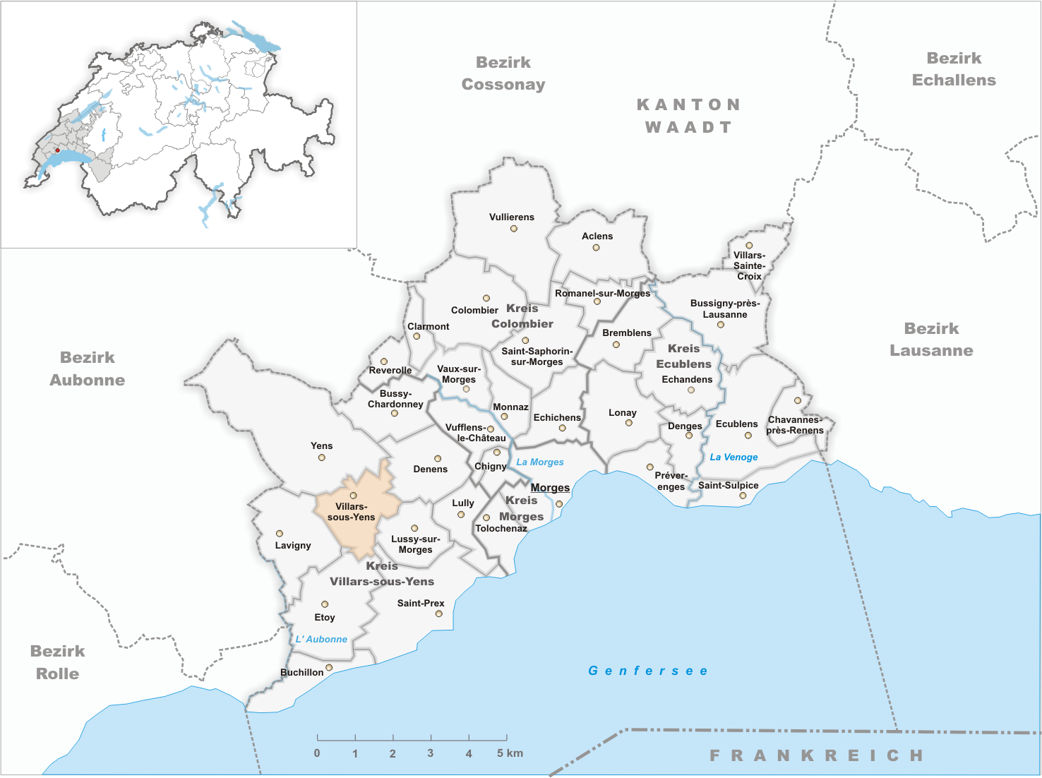 Municipality Villars-sous-Yens